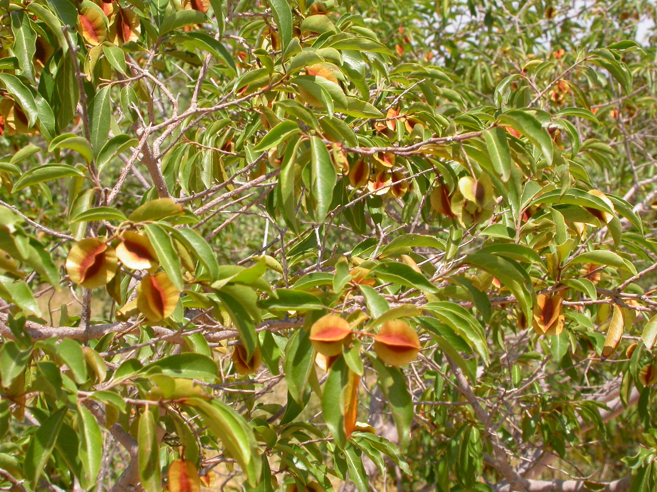 Combretum micranthum, Kinkeliba, traditionally used against Malaria. Near Bobo-Dioulasso, Burkina Faso.